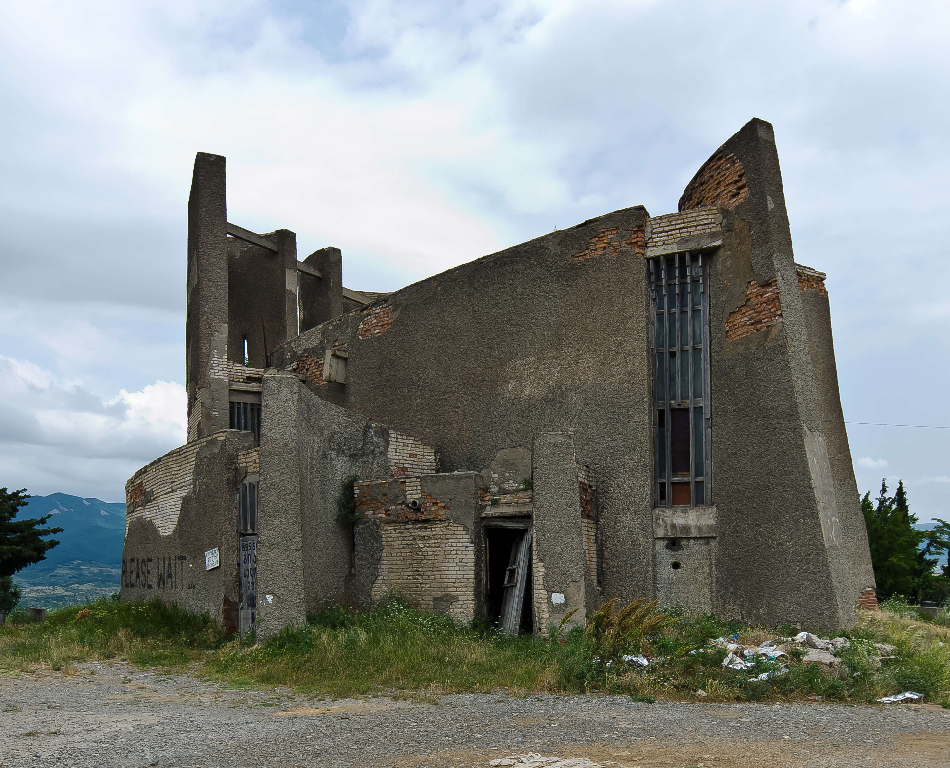 Victor Djorbenadze's 1974 cemetery complex in Mukhatgverdi on the outskirts of Tbilisi. Photo by Vladimer Shioshvili, 2015.